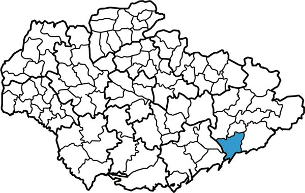 Mariupol on map of Ukraine